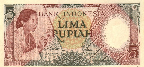 Scan of an Indonesian Rupiah banknote, for Banknotes of the Indonesian rupiah.